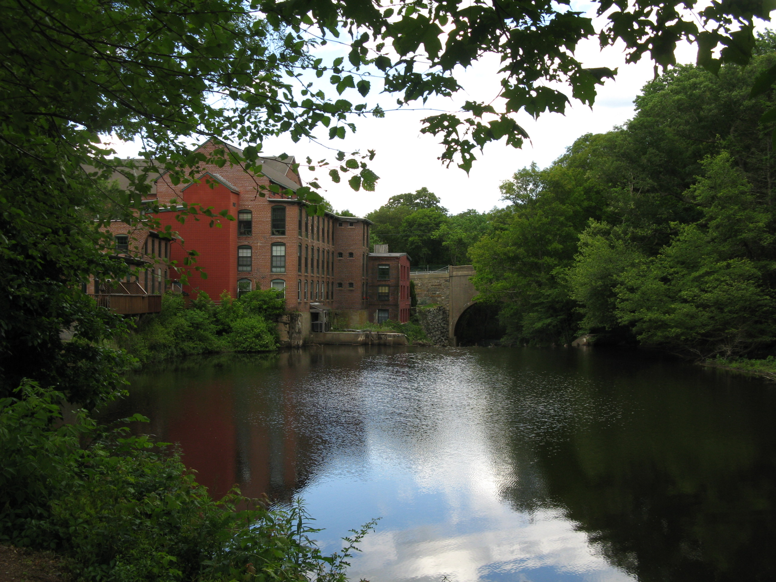 Sanford Mills on the Charles River, Medway Massachusetts